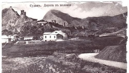 The road to the German Colony. Sudak, Crimea, 1912.